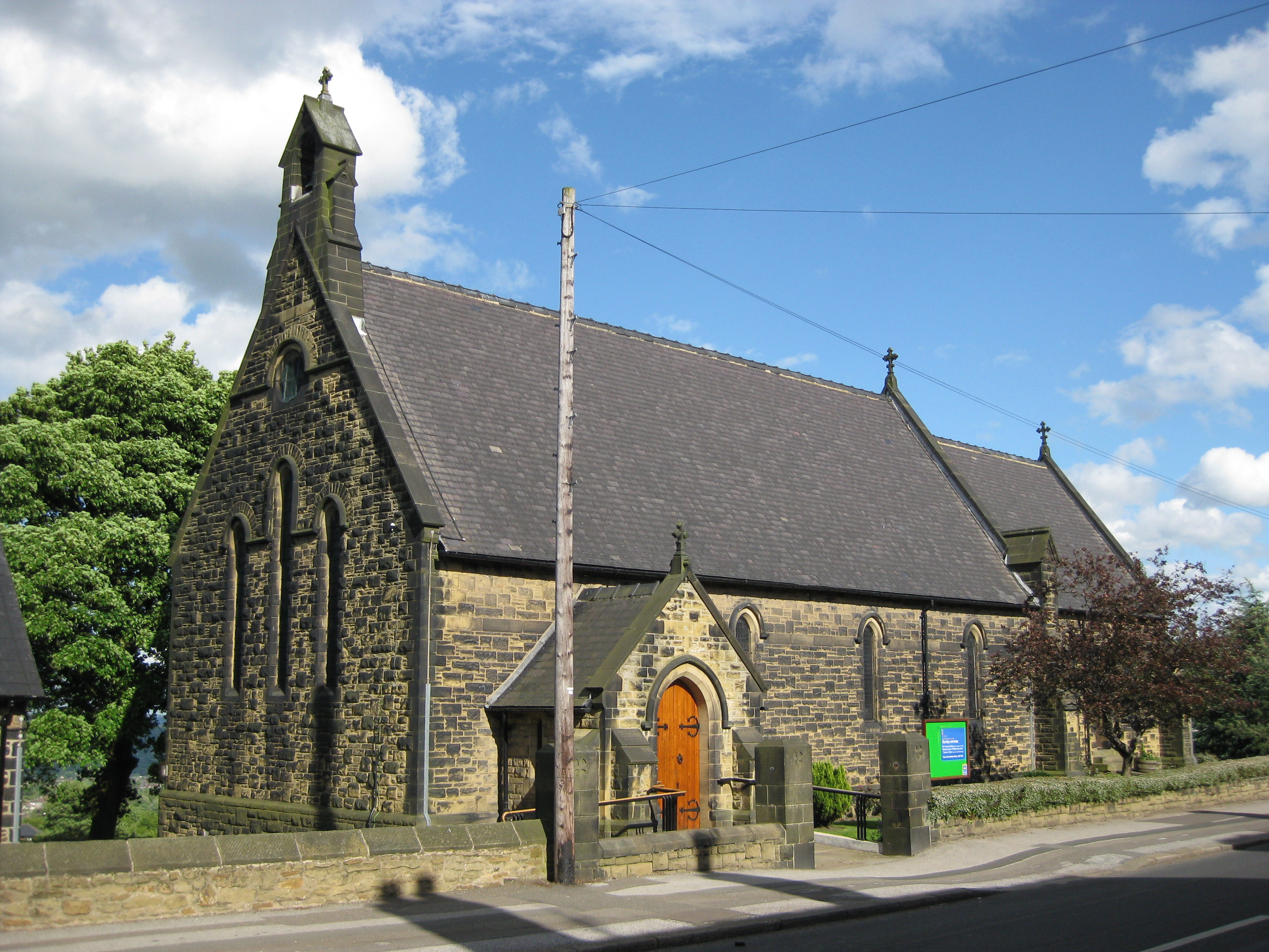 St Mark's parish church, Main Street, Grenoside, South Yorkshire, seen from the west